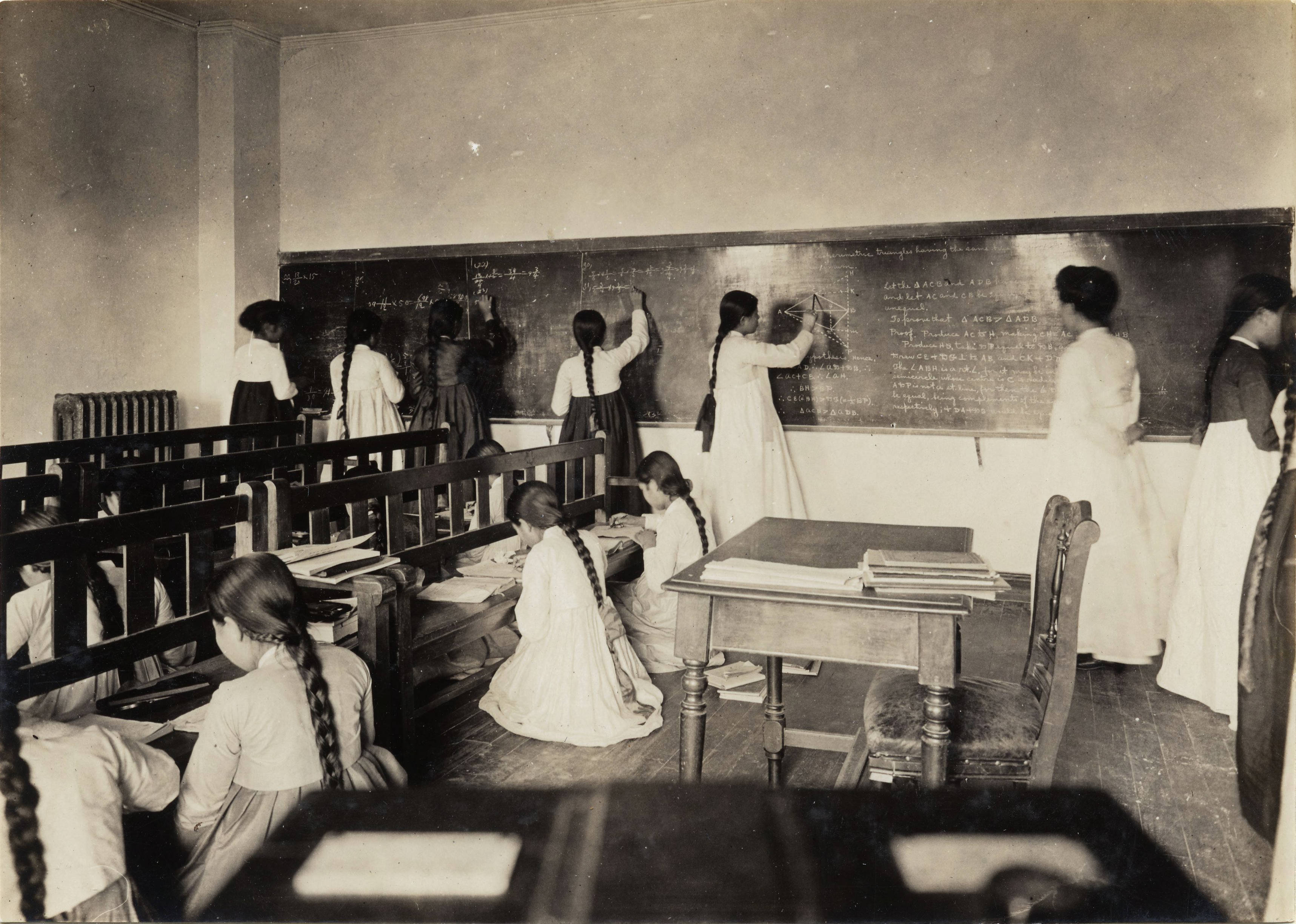 Higher mathmatics, [s.d.] Higher mathmatics class at Ewa Haktang Girl's School, Seoul. The school could not afford desks. Since these Korean girls are accustomed to sitting on the floor at home, they use the benches as desks as well as seats. Date created: 1908/1922 Publisher (of the Digital Version): University of Southern California. Libraries Repository Name: Methodist Church (U.S.) Legacy Record ID: kda-m112 Photographer: Methodist Episcopal Church Format: photograph Archival file: kda_Volume42/Taylor_box21num45.jpg Rights: "Neither the General Conference nor any General Agency of The United Methodist Church (successor to the Methodist Episcopal Church) claims any interest in the photos or images." Filename: Taylor_box21num45 Coverage date: 1908/1922 Contributing entity: University of Southern California Repository Address: Nashville, Tennessee Part of collection: Korean Digital Archive Donor: Taylor, Ewing Bevard Type: images Part of subcollection: The Reverend Corwin & Nellie Taylor Collection Geographic Subject (Country): Korea Compiler: Taylor, Corwin; Blood-Taylor, Nellie